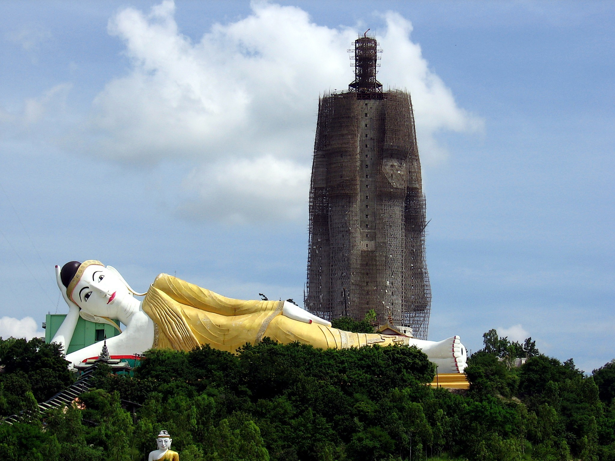 90 m. long reclining buddha, near Monywa, Myanmar under construction.